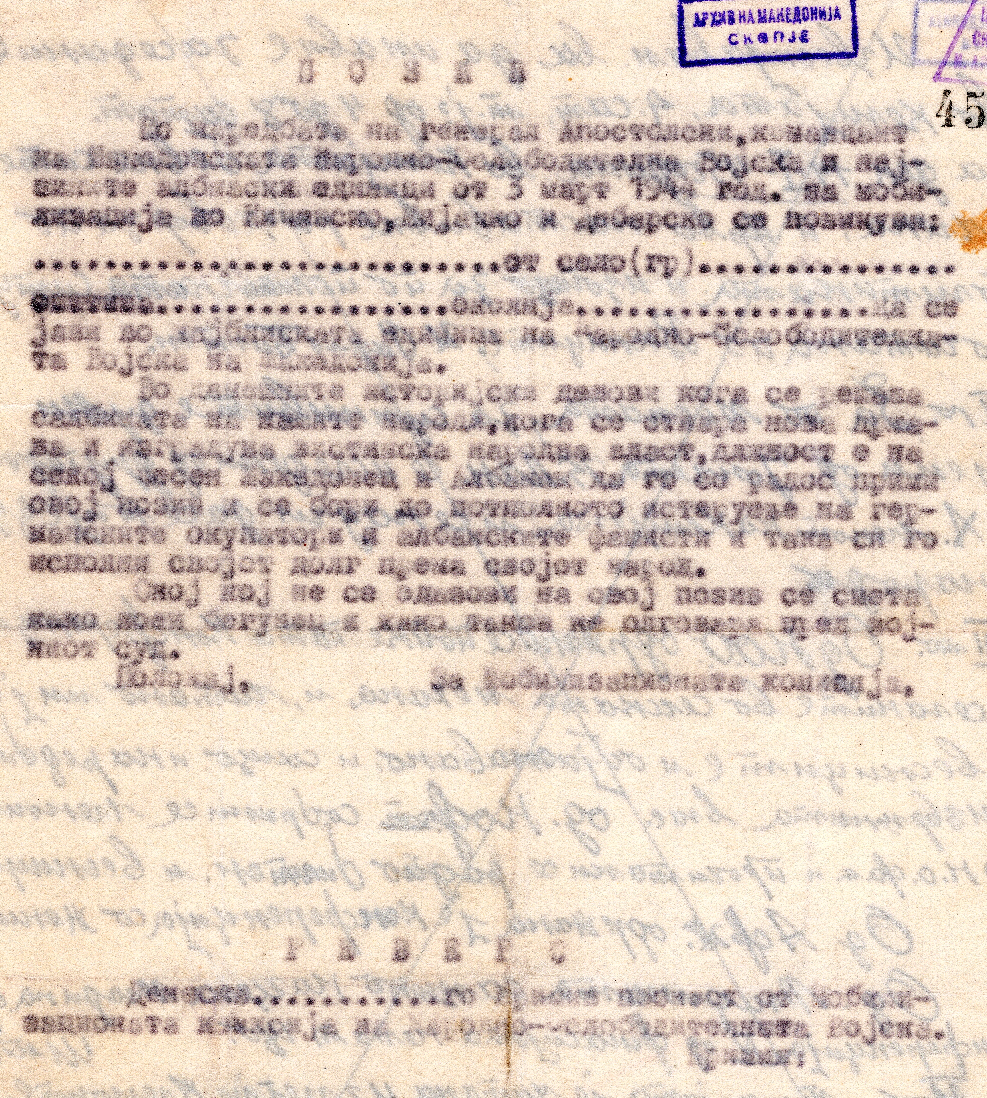 An invitation for joining NLW of Macedonia, issued by the General Apostolski (March 3 1944). This media file is produced by Wikipedian in Residence in Category:Wikipedian in Residence at DARM in 2017.